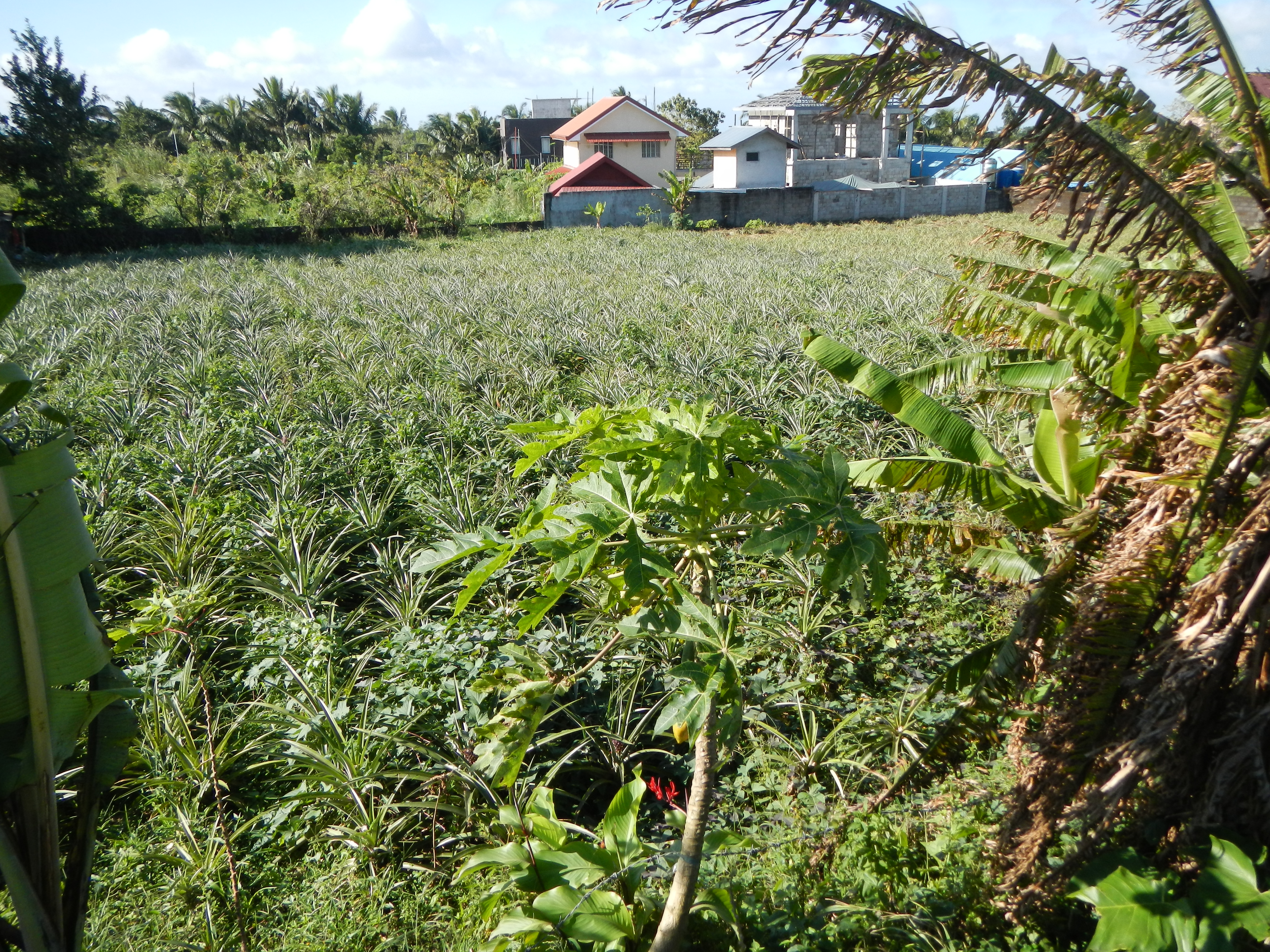 Upload Wizard photos of - Scenery - along Aguinaldo Highway corner Lourdes Drive st. - in front slightly is the Poveda House of Prayer, and pineapple plantations, which is in front also of the vast grass fields, or pasture beside the Canossa House of Spirituality overlooking the panoramics, landscape view of the - Tagaytay[1] City of Tagaytay, and its neighbor towns, including Taal Lake, Taal Volcano and the Mountains and beside is the - the Landmark, Heritage, Cultural tourist spot and pilgrimate site - the 1940 Our Lady of Lourdes Parish Church of Tagaytay (under the Capuchin Franciscans, a place of Healing and Pilgrimage.is preparing for its Diamond or 75th Anniversary - it belongs to the Roman Catholic Diocese of Imus [2], Vicariate of The Seven Archangels Tagaytay City, Mendez, Indang, Amadeo, Alfonso, and General Aguinaldo; Vicar Forane: Rev Fr. Luisito C. Gatdula Vicarial Representative: Rev. Fr. Hermenegildo M. Asilo) - Tagaytay[3] City of Tagaytay.